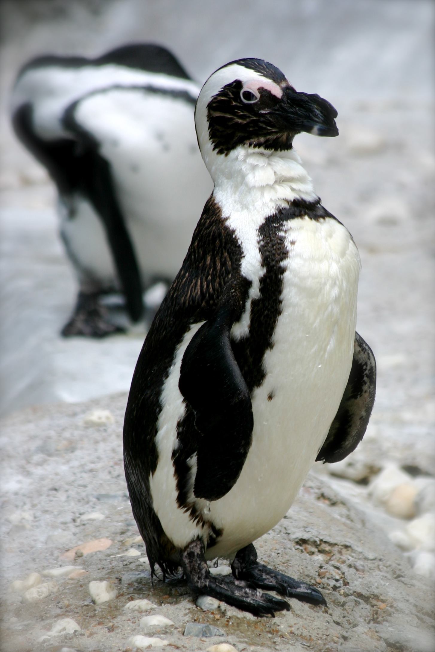 A black-footed penguin at the Memphis Zoo.